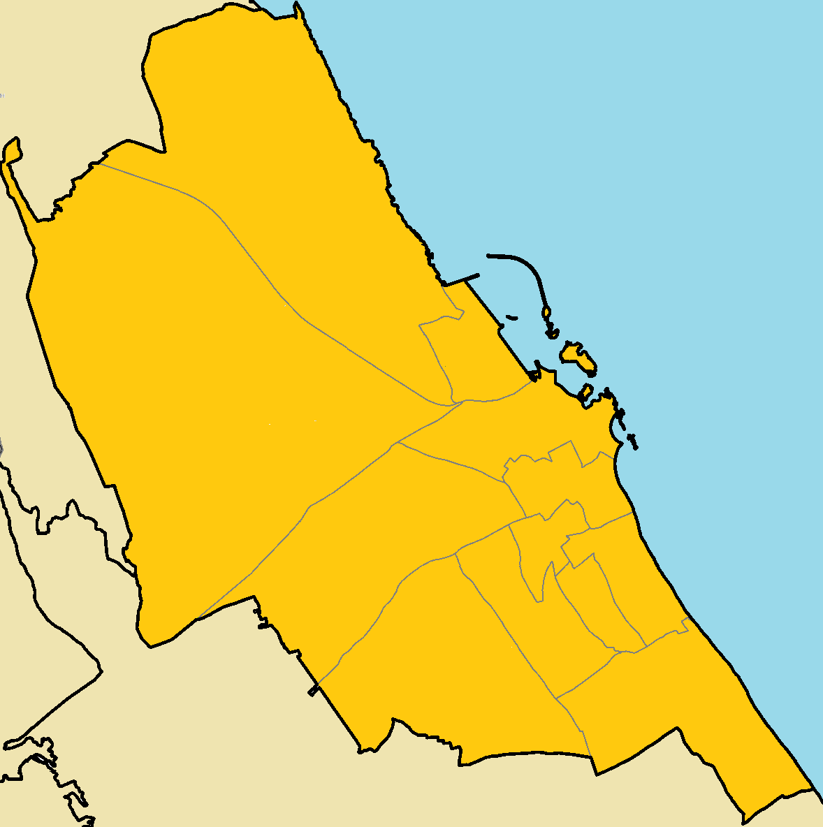 Famagusta Municipality with quarters (de jure).